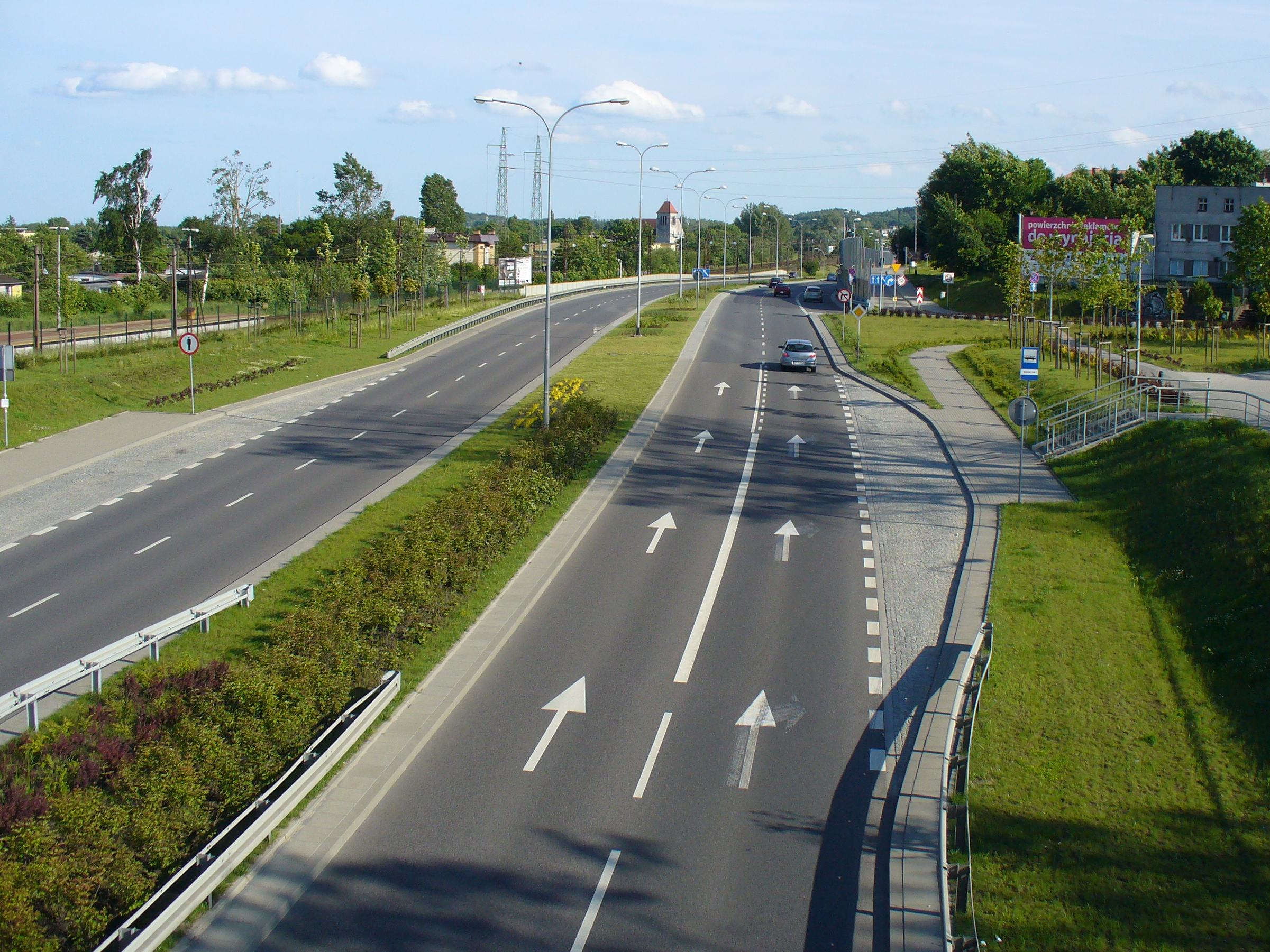 Poland, Gdynia, Droga różowa